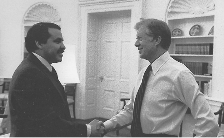 President Jimmy Carter expresses his appreciation to author for his key role in the exfiltration operation. Agent Antonio J. Mendez is congratulated by President Jimmy Carter on the success of Operation Argo.